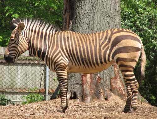 Hartmann's Mountain Zebra in Louisville Zoo.